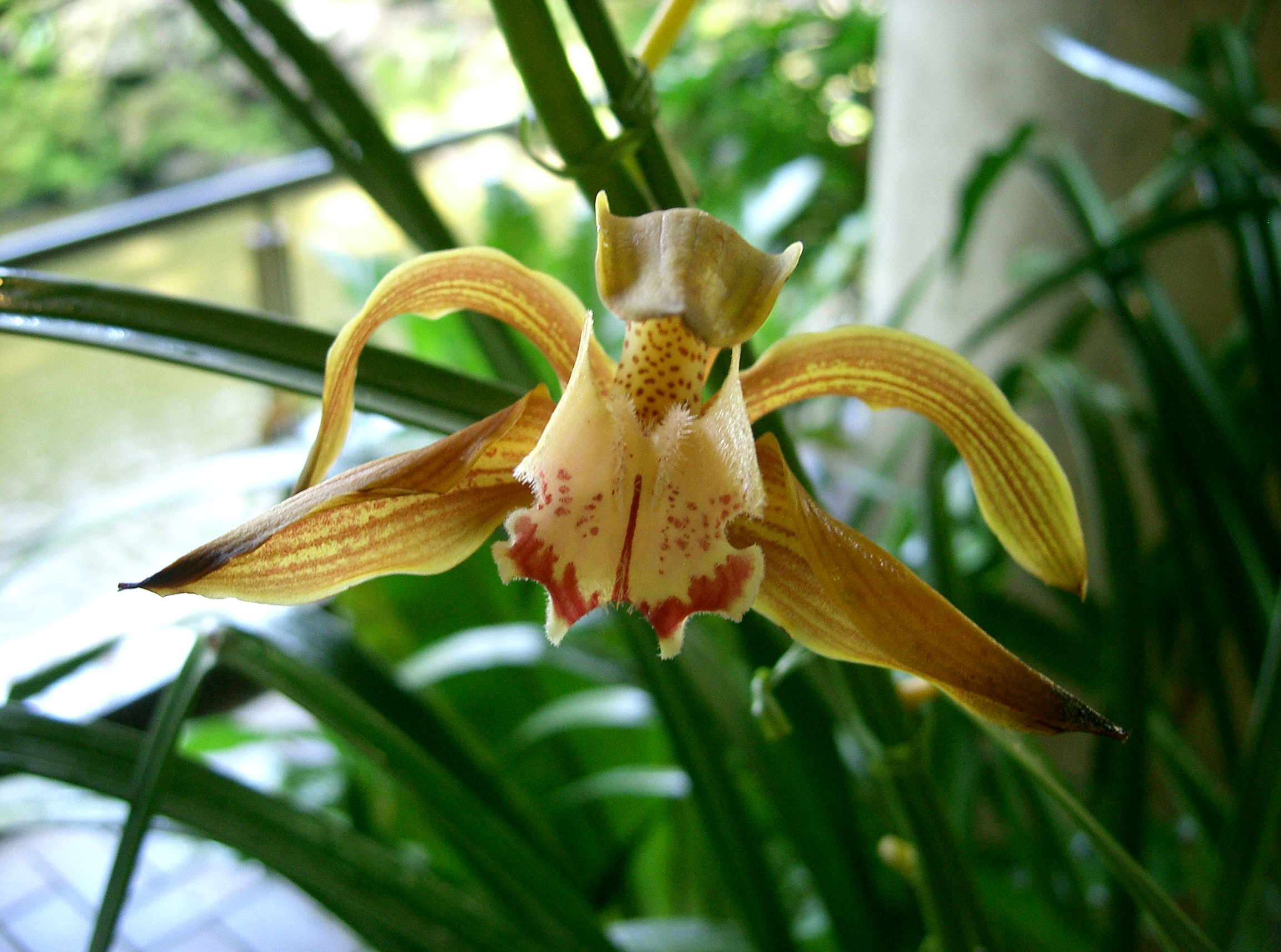 Scientific name Cymbidium tracyanum Place:Osaka Prefectural Flower Garden,Osaka,Japan